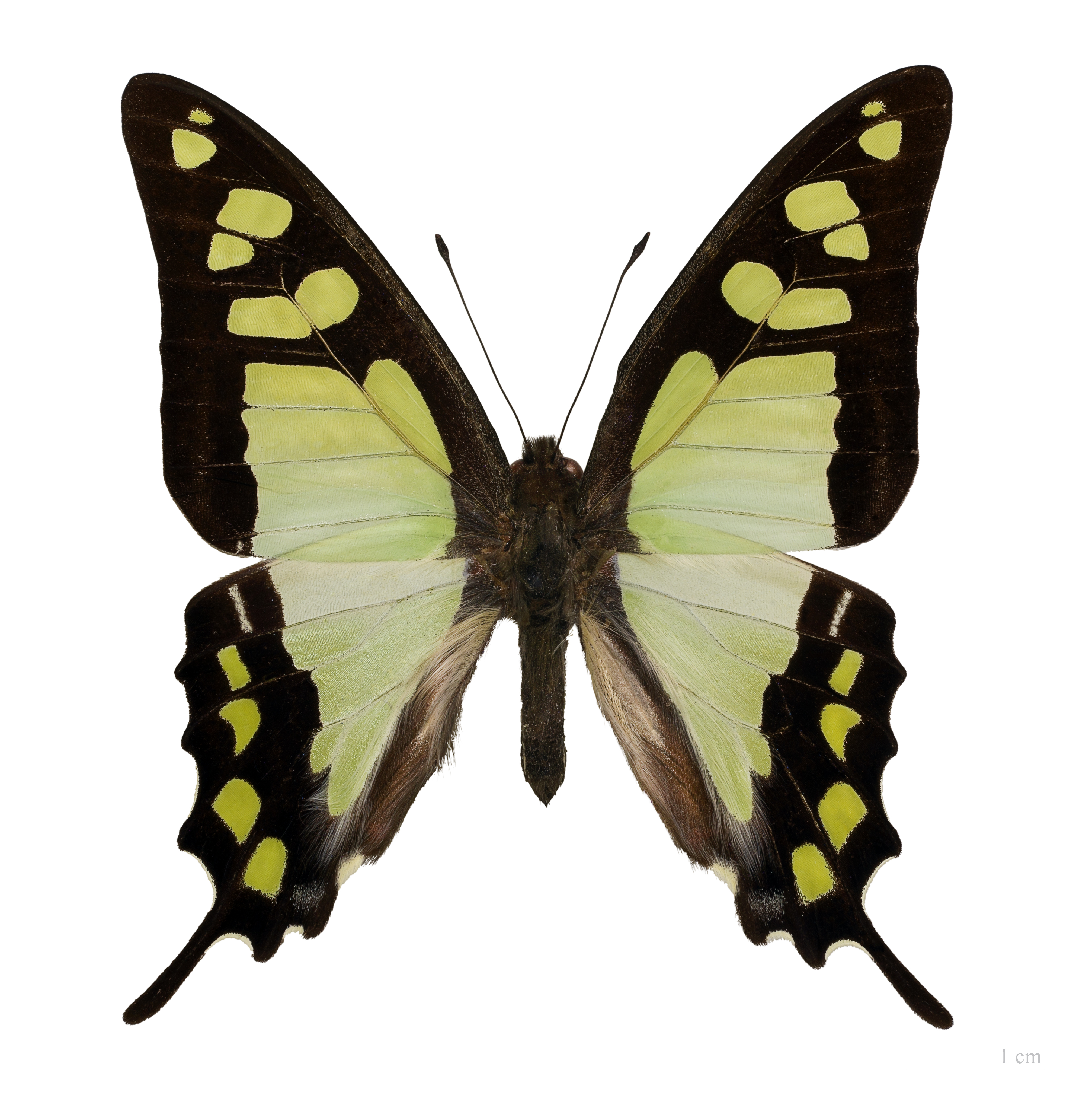 ♂ - Dorsal side Locality: Brastagi, Sumatra Indonesia